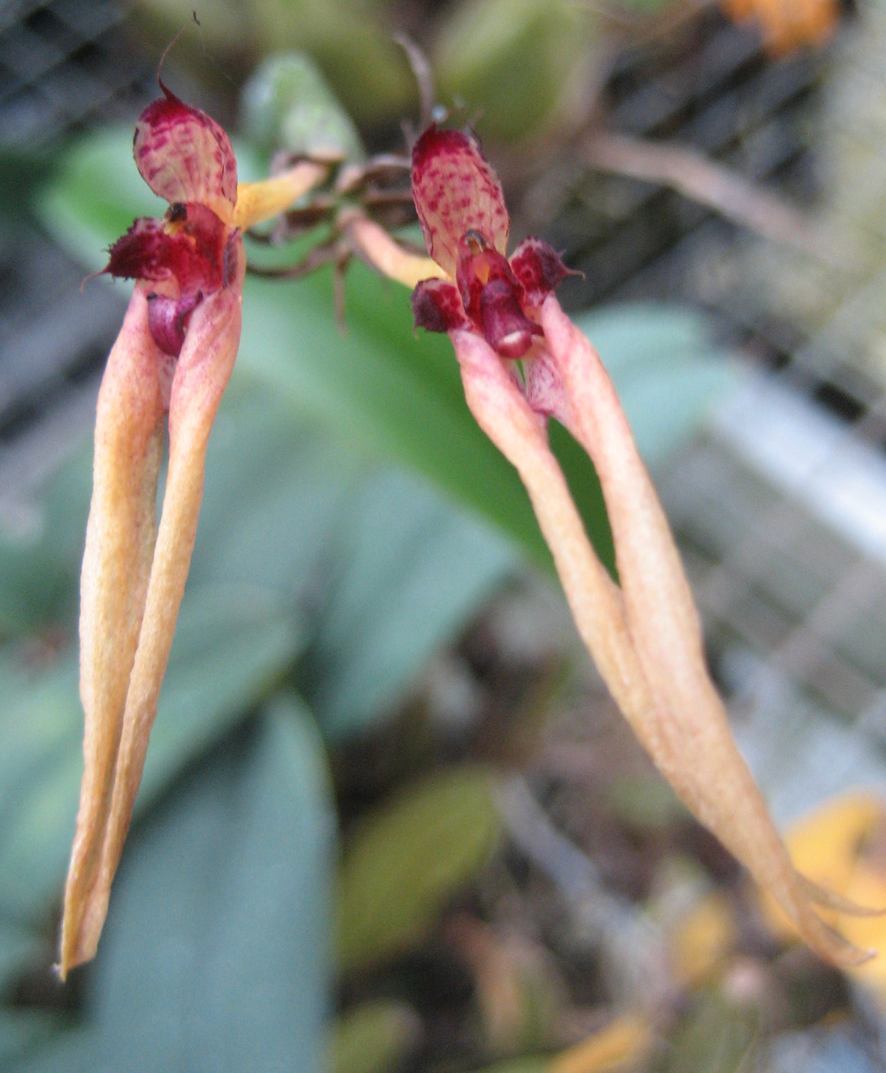 Bulbophyllum pseudopicturatum at the Serres d'Auteuil, Paris, France